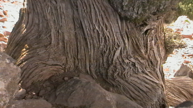 bark of adeghmam (Juniperus thurifera var. africana) in High Atlas of Morocco (near Oukaymeden) Walon: schoice do pectî (Juniperus thurifera var. africana) dins l' Hôt Atlasse (Marok), (portrait saetchî pa L. Mahin, dirî l' do Oucaymeden).